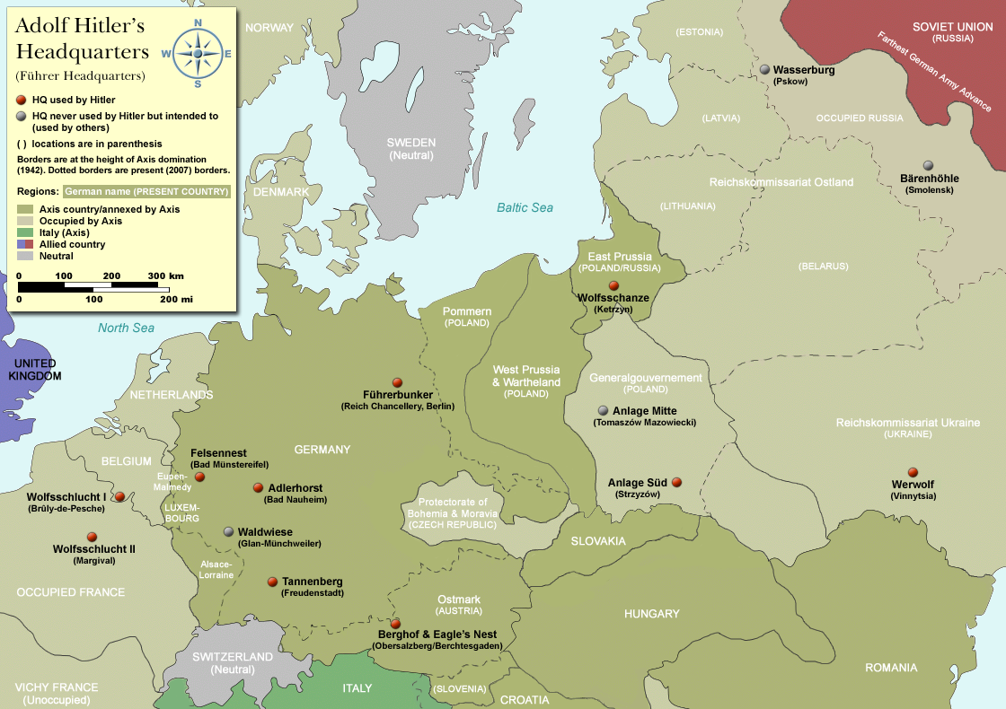 Map of Adolf Hitler's Headquarters (Führer Headquarters) in Europe 1933-1945. Legend: Red locations indicate headquarters that were used by Hitler. Grey locations indicate headquarters that were not used by Hitler (but intended to); they were however used by other military officials. The locations are given in parenthesis . Borders are at the height of Axis domination (1942), and dotted borders are present (2007) borders. Some regions have German designations (e.g. "Ostland"), with the present country name denoted in uppercase letters in parenthesis below the German designation (e.g. "(AUSTRIA)"), or without any German designation (e.g. "(ESTONIA)"). Countries that were part of the Axis/annexed by Axis are colored dark green (Germany, Austria, Hungary, Romania & Italy etc). Countries that were occupied by the Axis are colored light green, except "Vichy France", colored light green but marked as "unoccupied". Countries that were part of the Allies are colored blue (United Kingdom) and red (Soviet Union). Neutral countries are colored grey (Switzerland & Sweden). For more information, please see "References" and "Notes on the individual headquarters" below.